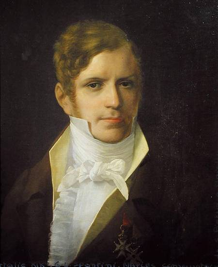 The image of Italian opera composer Gaspare Spontini (1774-1851)